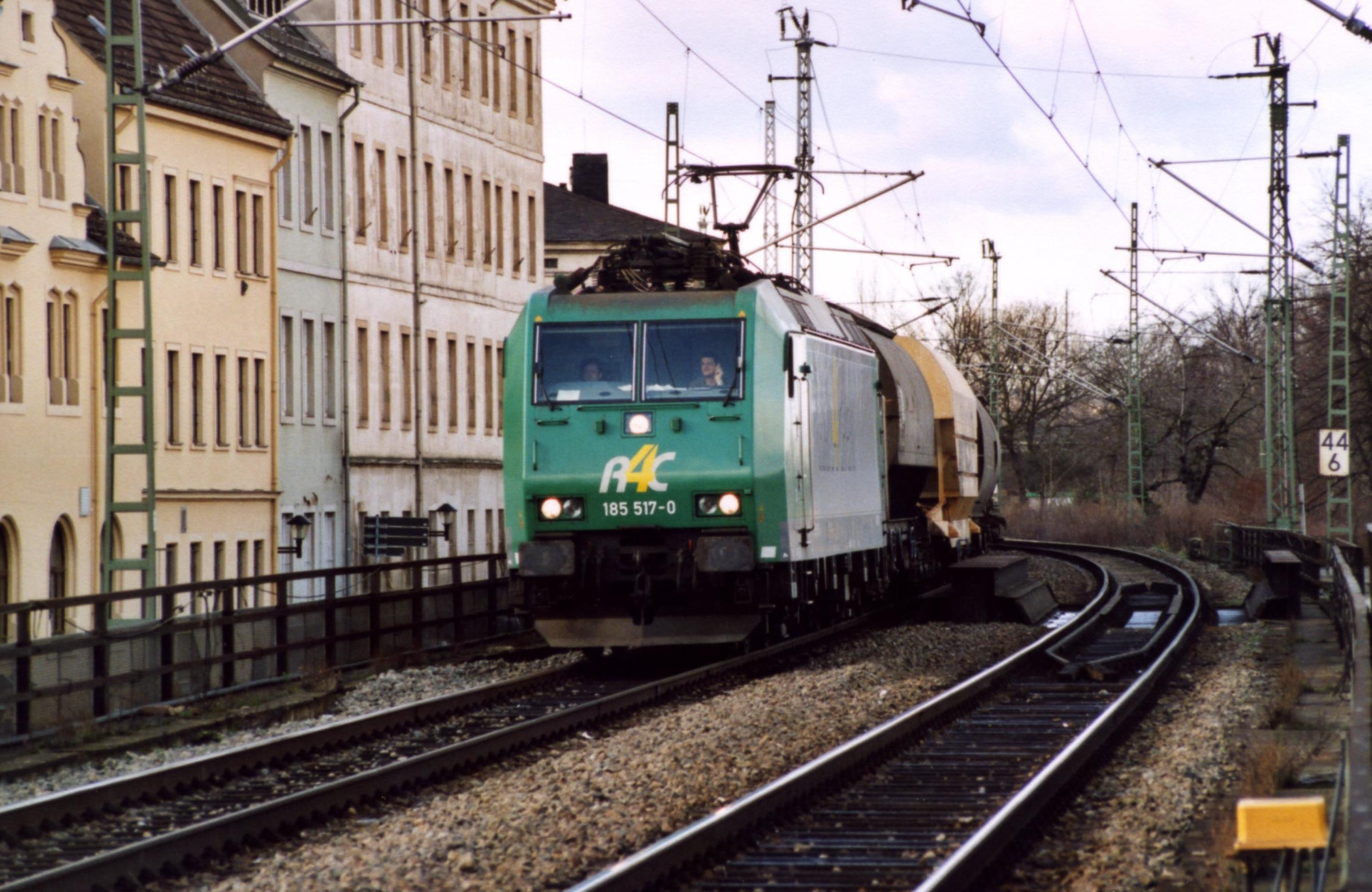 This image shows a freighttrain on the Dresden - Děčín rail line in Pirna. The locomotive is a class 185 and belongs to the cargo operator "rail4chem".